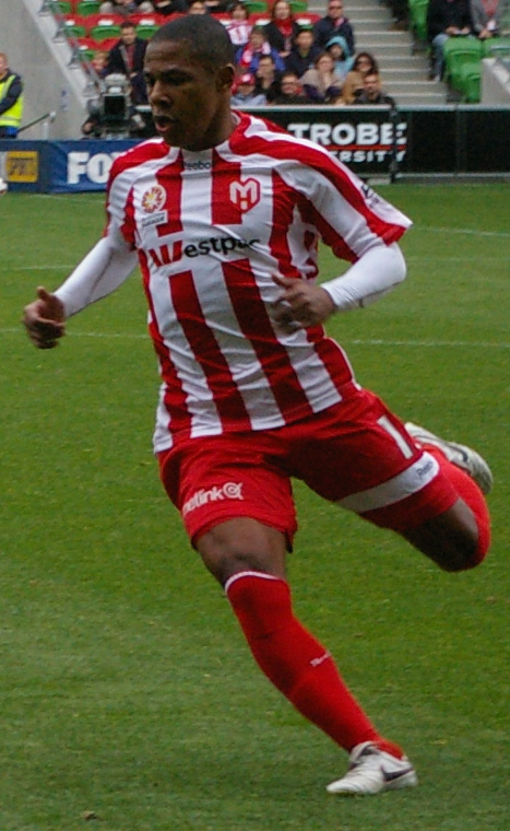 Alex Terra, Brazilian football player for Melbourne Heart